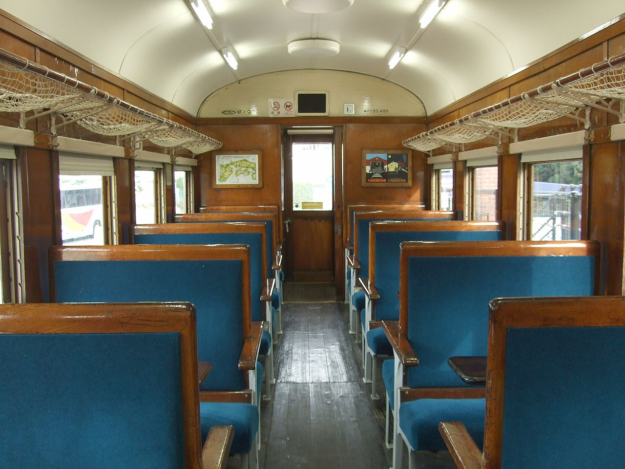 The inside of JNR PC ohafu33488 (at Mekari Park, Moji Ward, Kitakyushu City, Fukuoka, Japan)